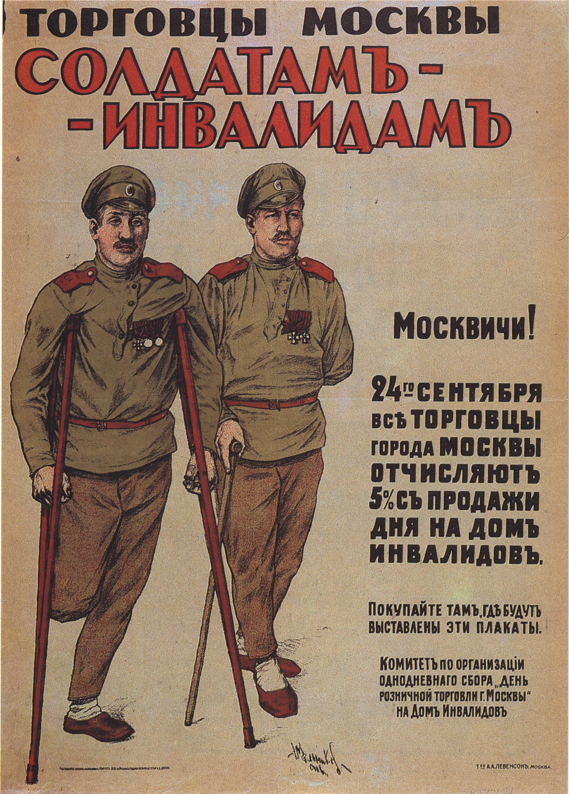 poster